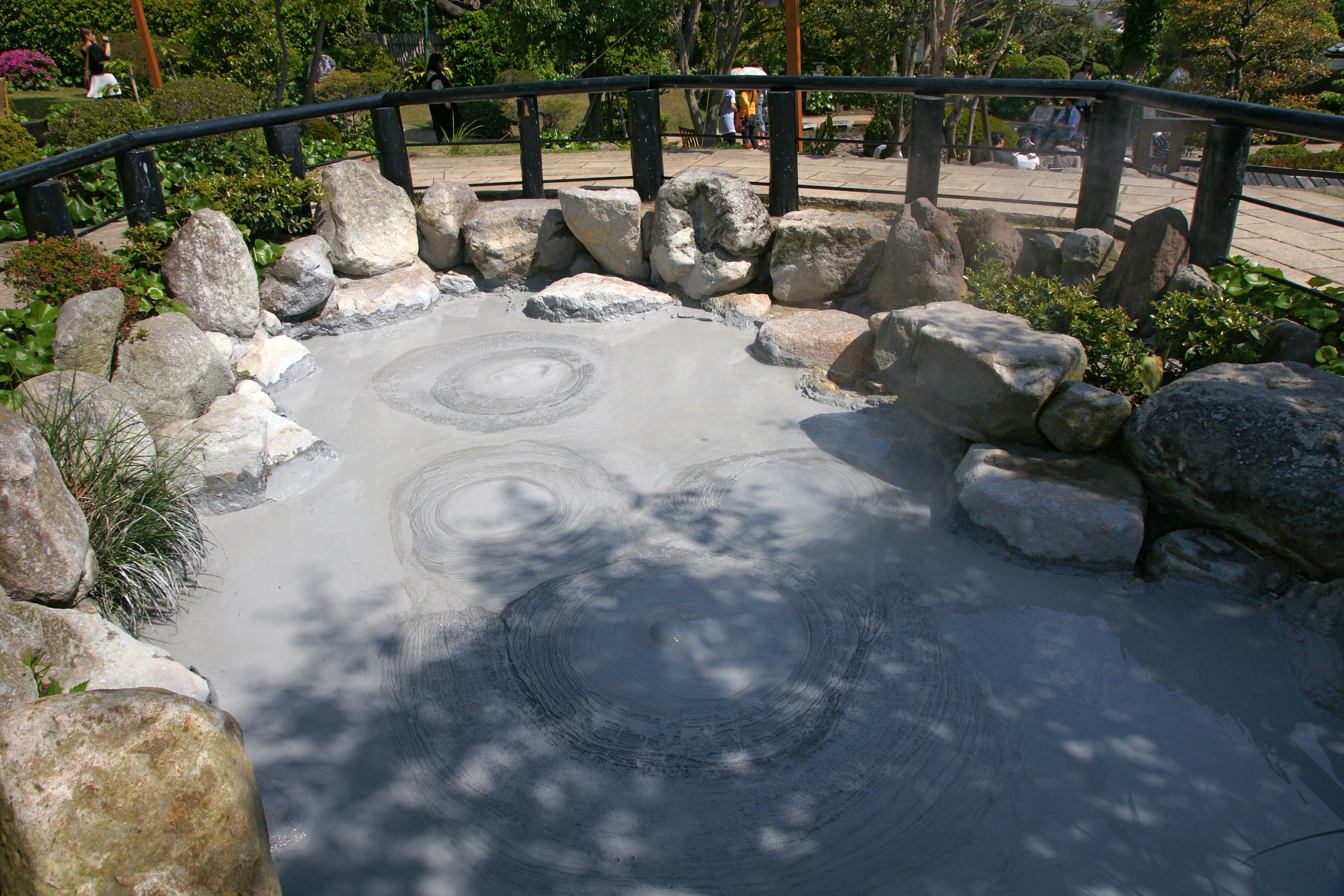 Bozu Jigoku of Beppu Jigokumeguri, Beppu, Oita prefecture, Japan